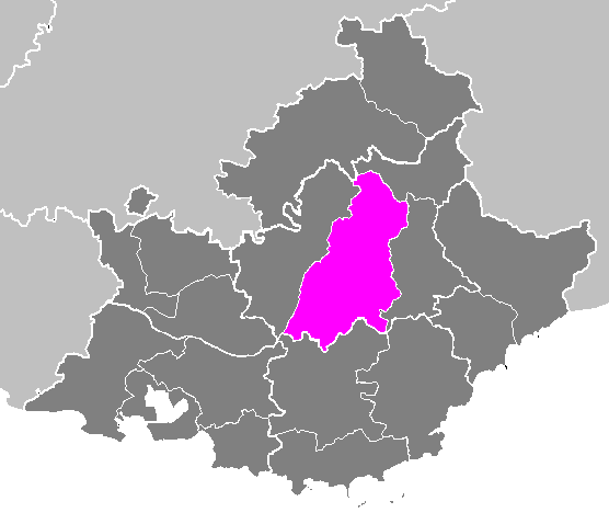 Maps of arrondissements and cantons of France: Arrondissement de Digne-les-Bains.PNG